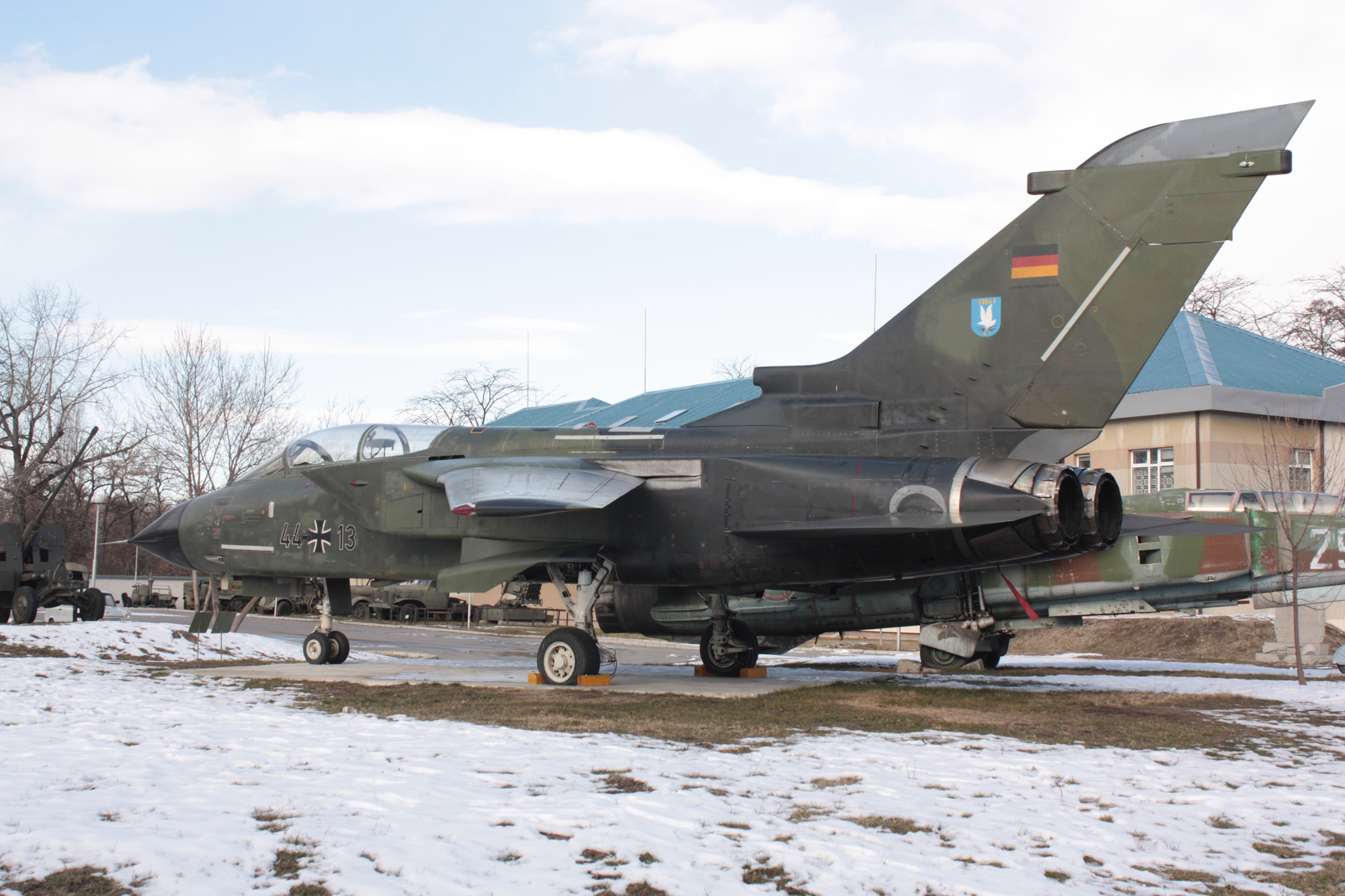 Multi Role Combat Aircraft Tornado in the National Museum of Military History (Bulgaria)